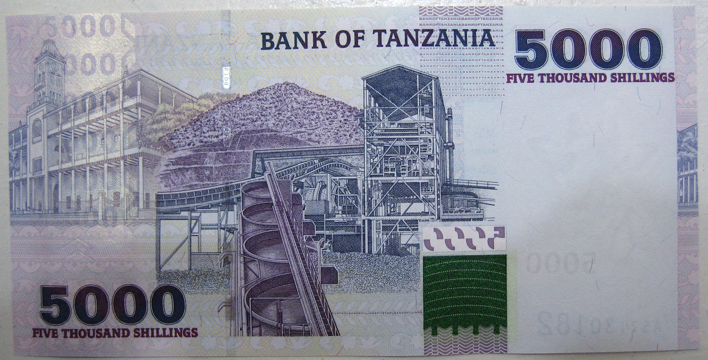 5000 Tanzanian shillings note, back, displaying a mine (issued 2003).